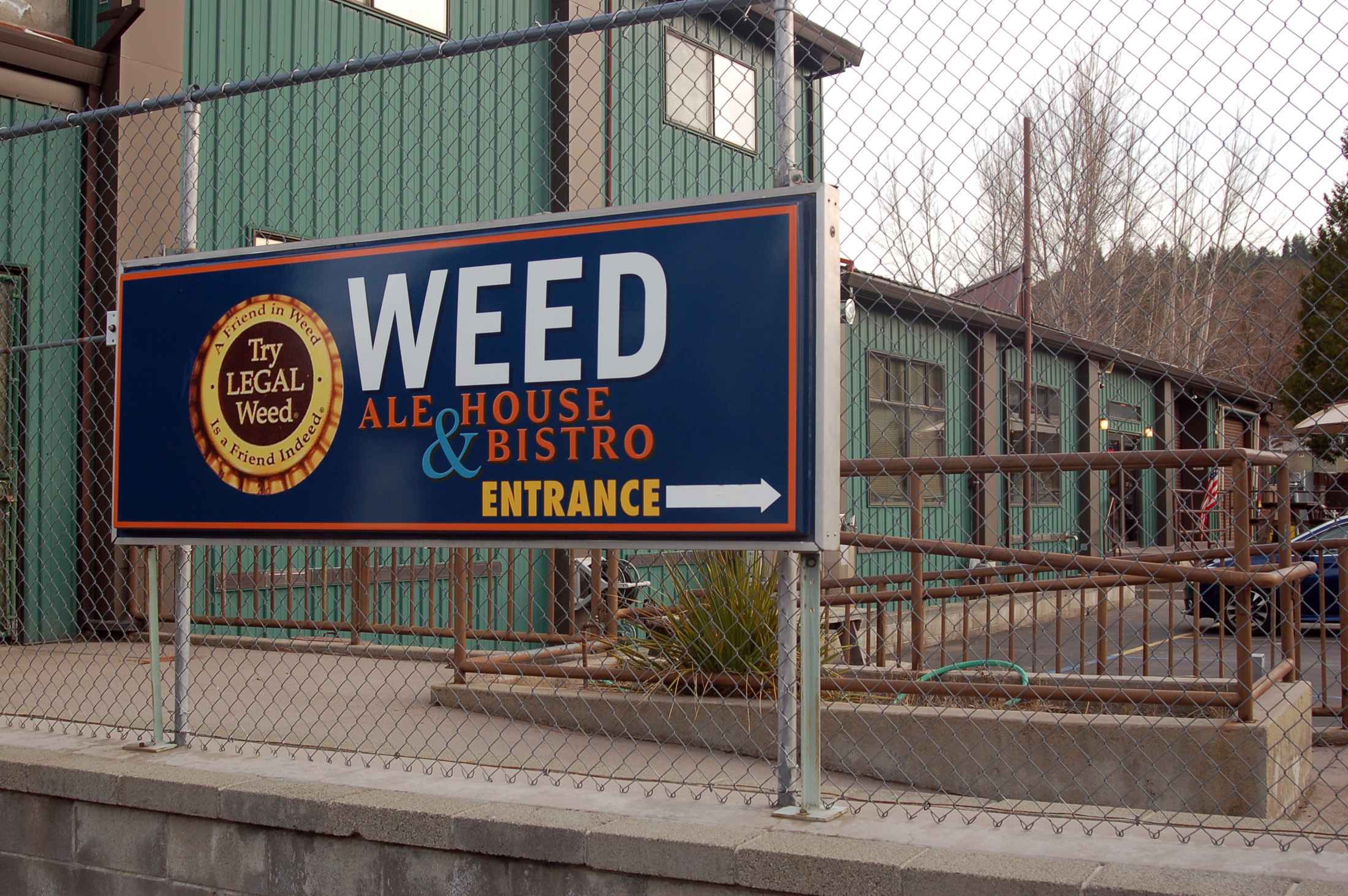 Mt. Shasta Brewing Company is a brewery in Weed, California. The company markets some brands as Weed Ales & Lagers. Owners Vaune and Barbara Dillmann began commercial production in 2003. Mount Shasta Brewing Company is licensed to distribute its beers in the states of California, Oregon, and Washington. The brewery has won awards for its beers, for local community involvement and for its marketing success with the slogan "Try Legal Weed".